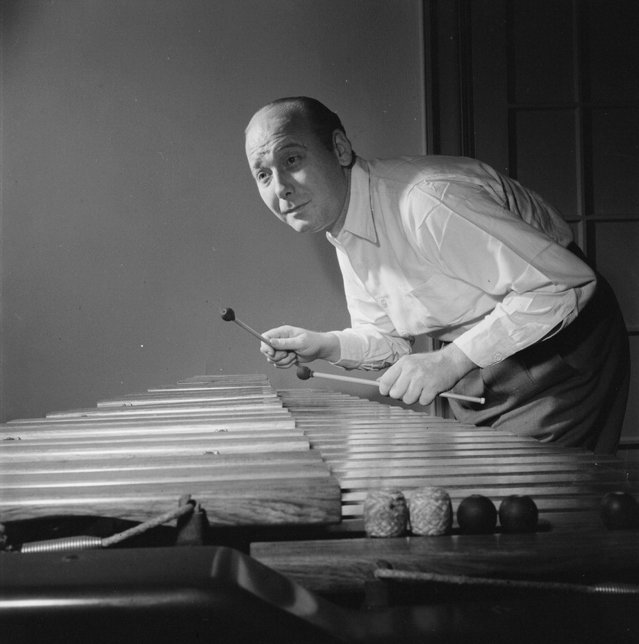 Gottlieb, William P., 1917-, photographer. [Portrait of Red Norvo, New York, N.Y.(?), ca. Feb. 1947] 1 negative : b&w ; 2 1/4 x 2 1/4 in. Caption from Down Beat: The personality of Red Norvo, vibraphonist magnificent, exbandleader, late of the Woody Herman Herd, is well caught in this musicianly lens study by staff photog Bill Gottlieb. Norvo, who loves the easy life, will shortly take leave of New York for sunnier Los Angeles, where he intends to obtain a Local 47 card. Notes: Gottlieb Collection Assignment No. 262 Reference print available in Music Division, Library of Congress. Purchase William P. Gottlieb Forms part of: William P. Gottlieb Collection (Library of Congress). In: "Red Norvo on the cover," Down Beat, v. 16, no. 4 (Feb. 12, 1947). Subjects: Norvo, Red Jazz musicians--1940-1950. Percussionists--1940-1950. Format: Portrait photographs--1940-1950. Film negatives--1940-1950. Rights Info: Mr. Gottlieb has dedicated these works to the public domain, but rights of privacy and publicity may apply. Repository: (negative) Library of Congress, Prints & Photographs Division, Washington D.C. 20540 USA, (reference print) Library of Congress, Music Division, Washington D.C. 20540 USA, Part Of: William P. Gottlieb Collection (DLC) 99-401005 General information about the Gottlieb Collection is available at Persistent URL: Call Number: LC-GLB23- 0661